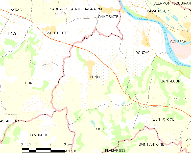 Map of French municipality Dunes